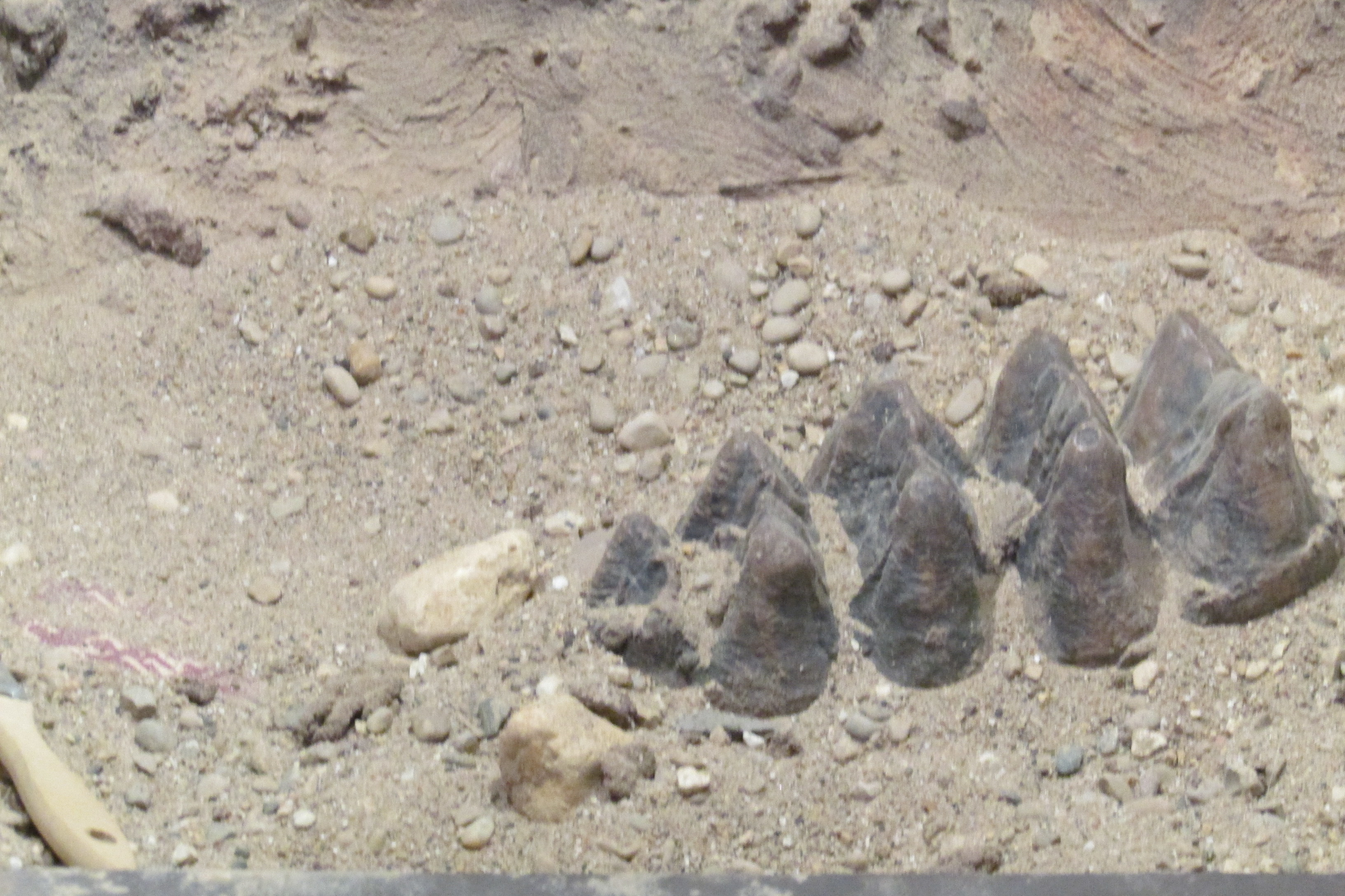 Mastodon tooth fossil found in Porter County, Indiana.